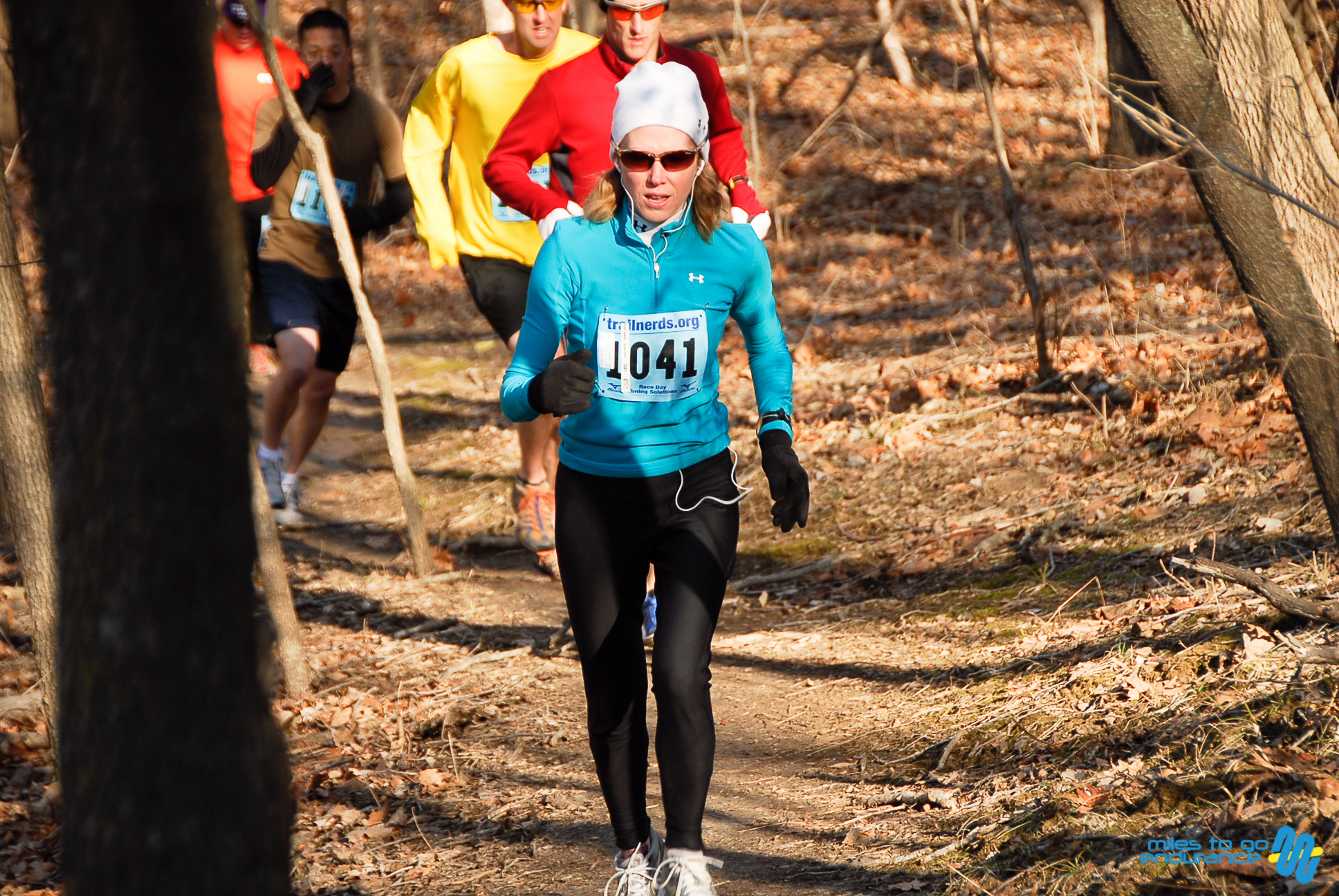 Mrs. Robinson's Romp